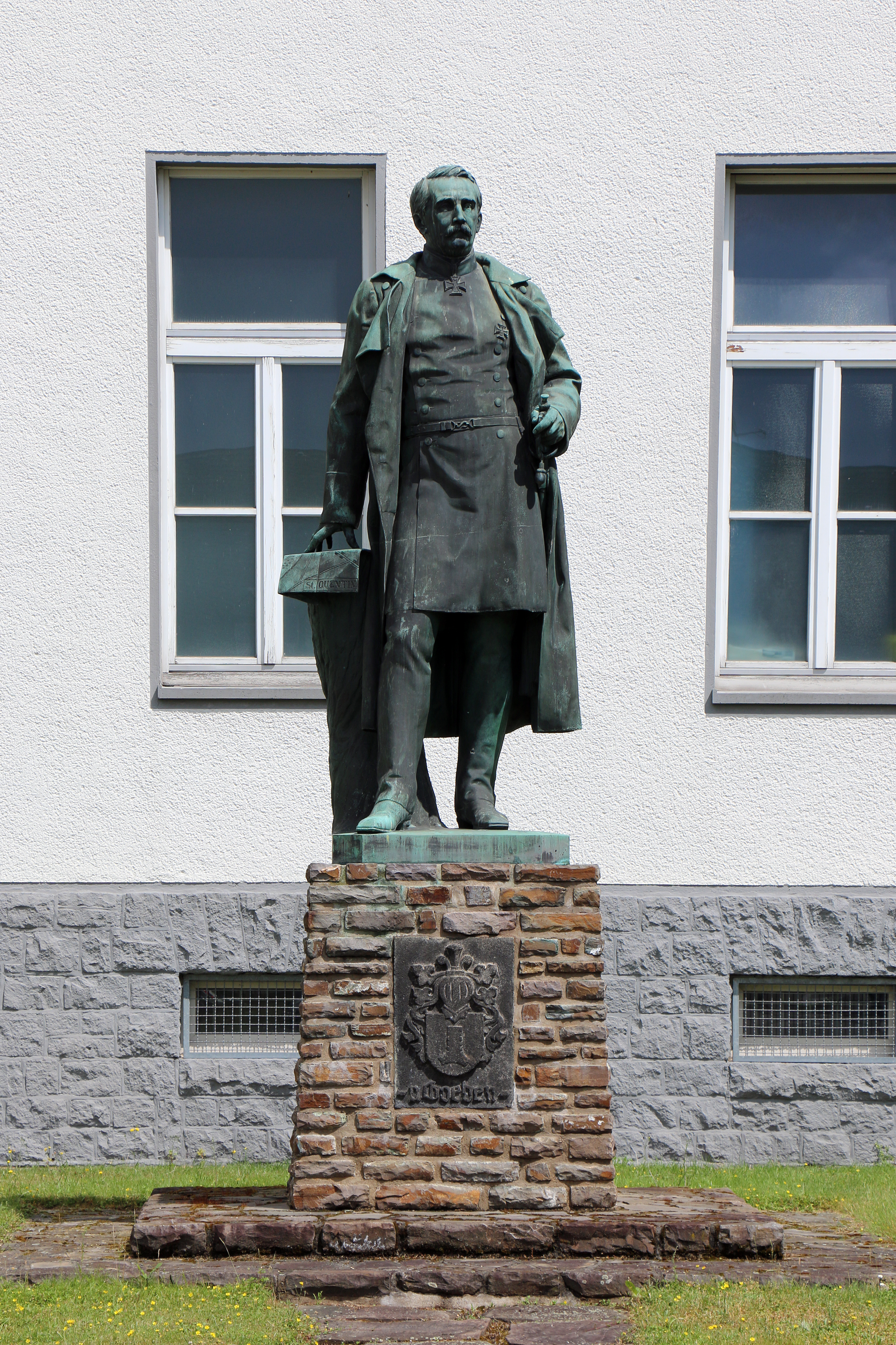 Goeben monument in Koblenz